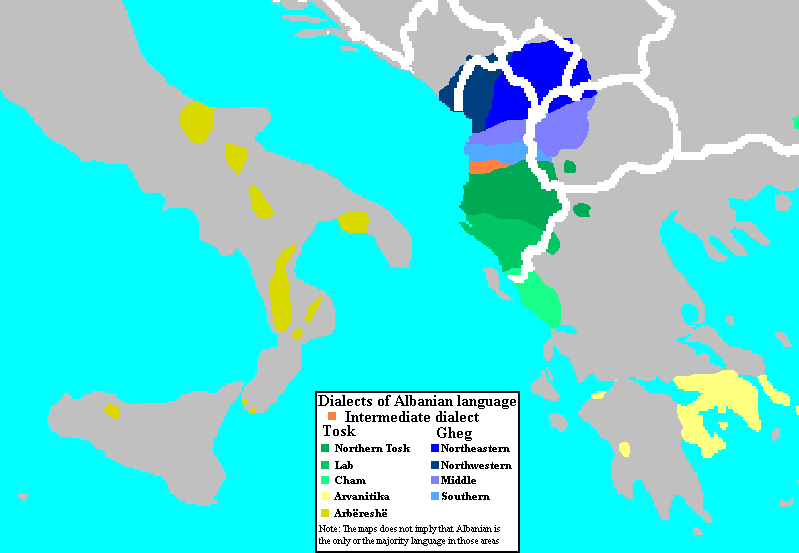 The map on the dialects of the Albanian language. According to "The Albanian Language", Albanian Academy of Sciences, Toena, 2000. The map does not imply that the Albanian language is the majority or the only spoken language in those areas.